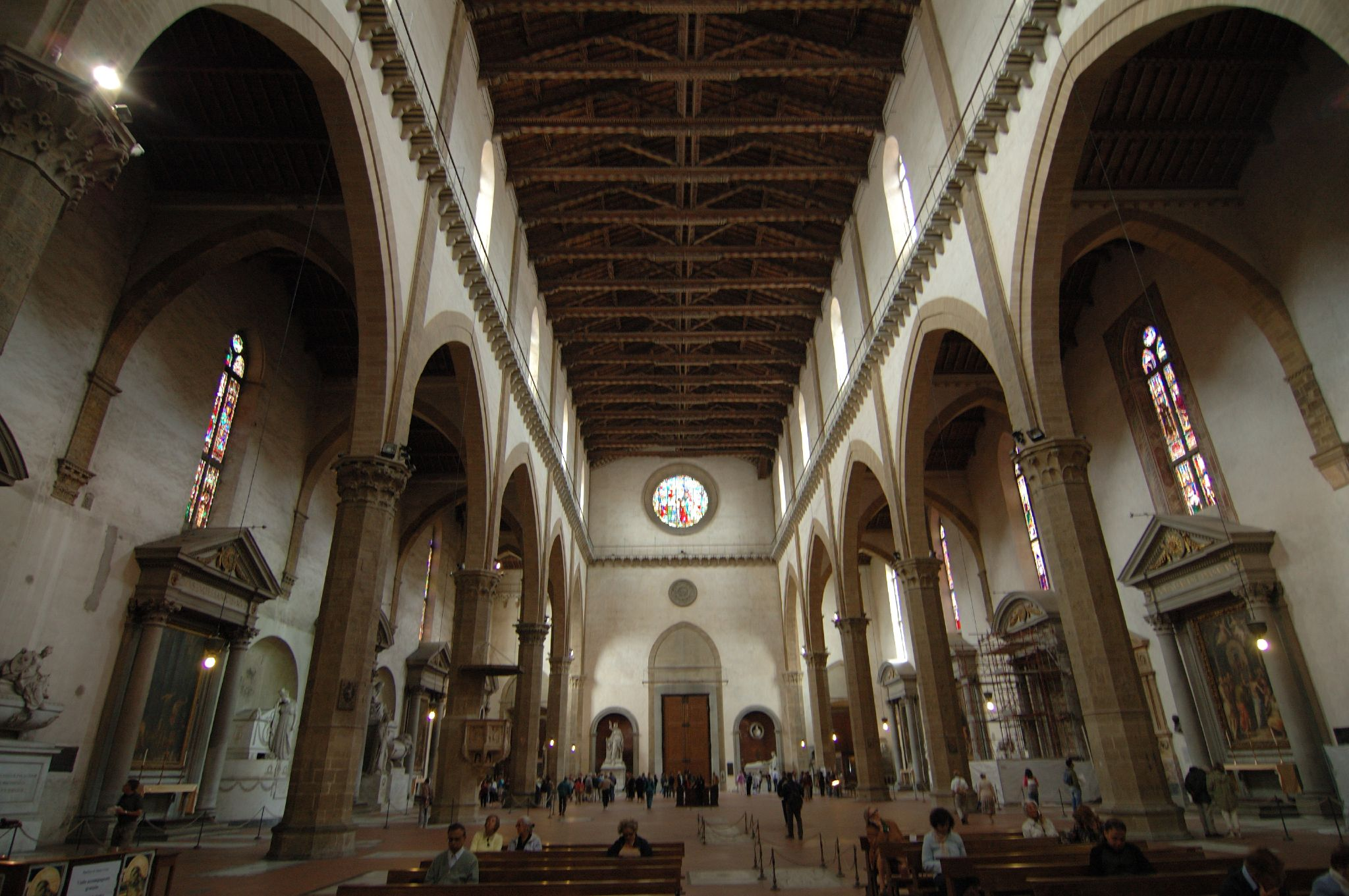 Interior of the Basilica of Santa Croce (Florence)